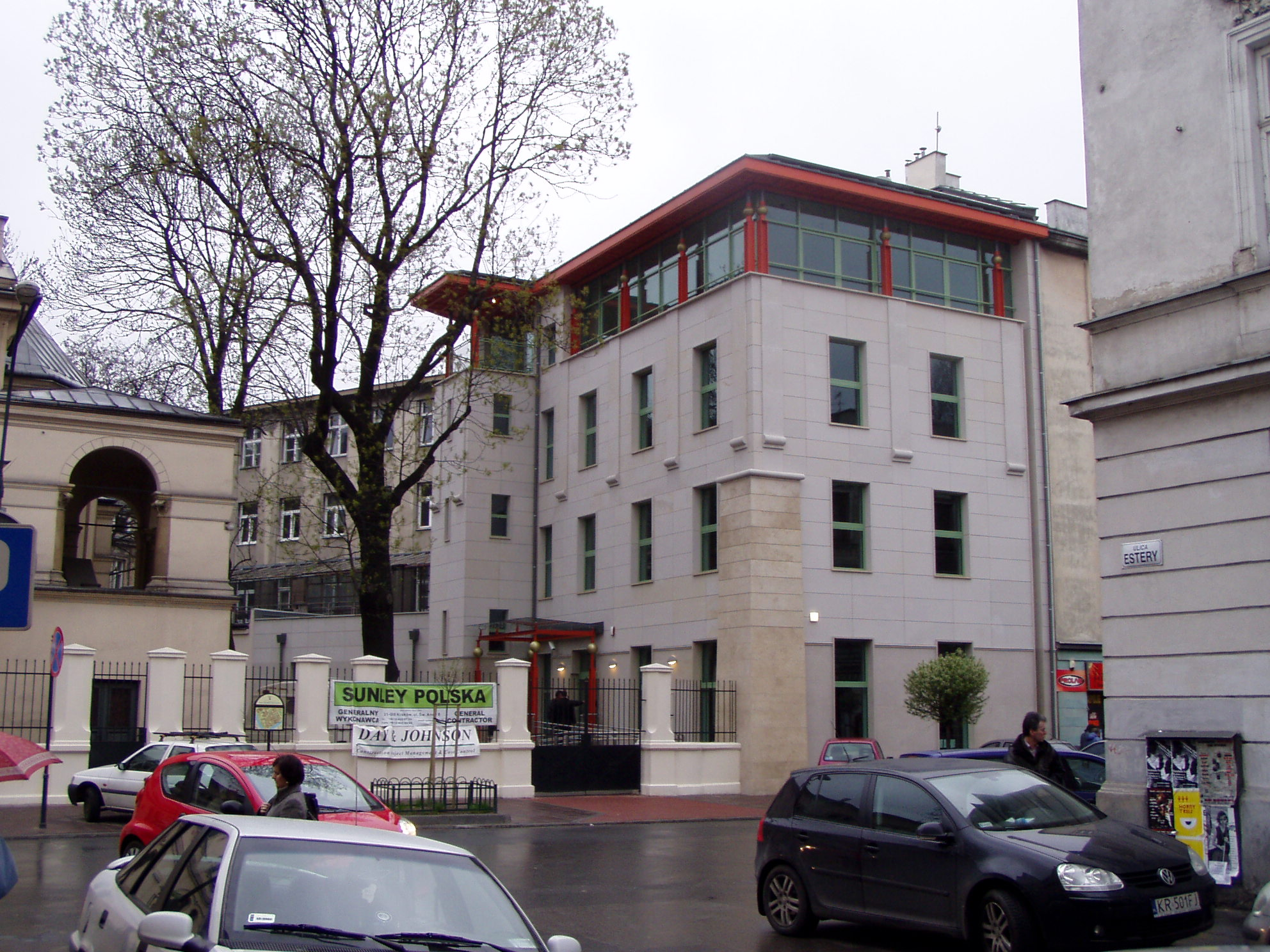 Jewish Community Centre in Kraków